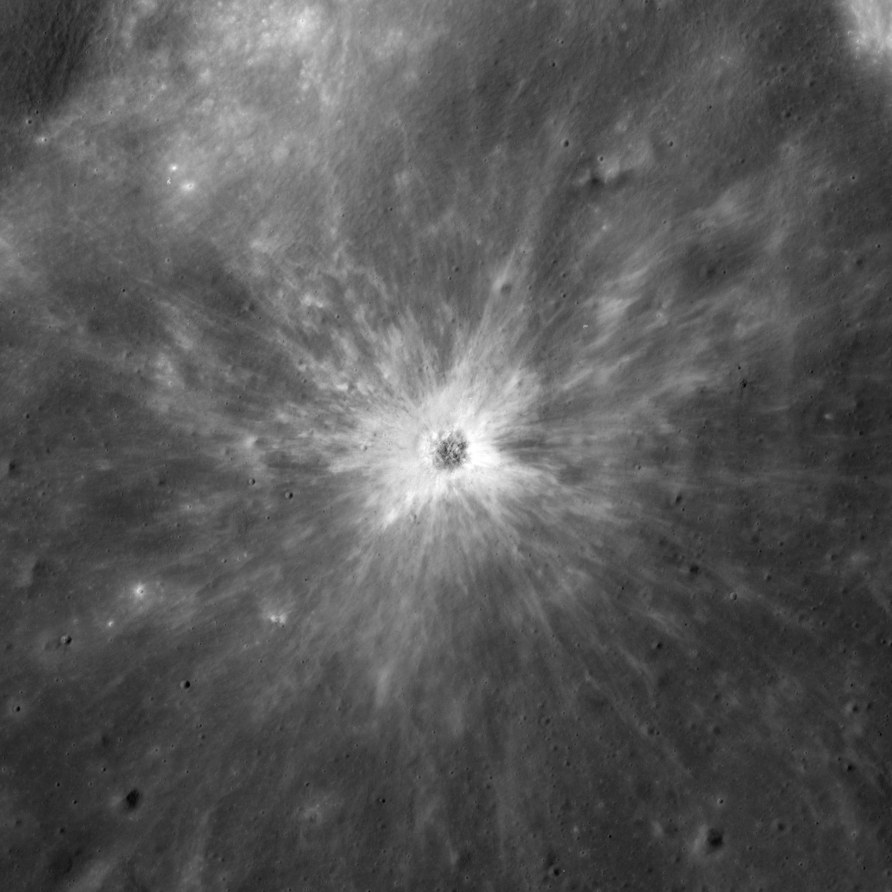 Stella crater, on the moon, with extensive ray system.